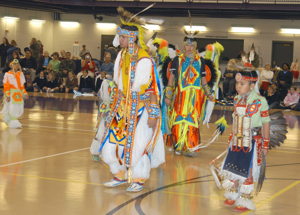 Members of the Winnebago Indian Tribes dance team, perform authentic Native American ceremonial dances at the Lied Activity Center in Bellevue, Neb., on Nov. 15, 2006. The tribal dance performance was the highlight of the culture fair events, held as part of Native American Heritage Observance month.